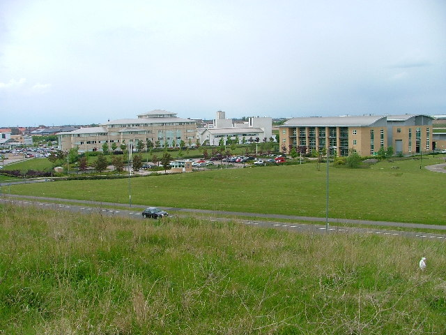 Queen's Campus Stockton. Built on the site of Head Wrightson's works this annexe to the University of Durham is part of the Teesdale Business Park in Thornaby. The site now employs more people than Head Wrightson did twenty years before its closure in 1985.